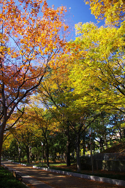 Autumn tint at Utsubo Park, Osaka city, Japan